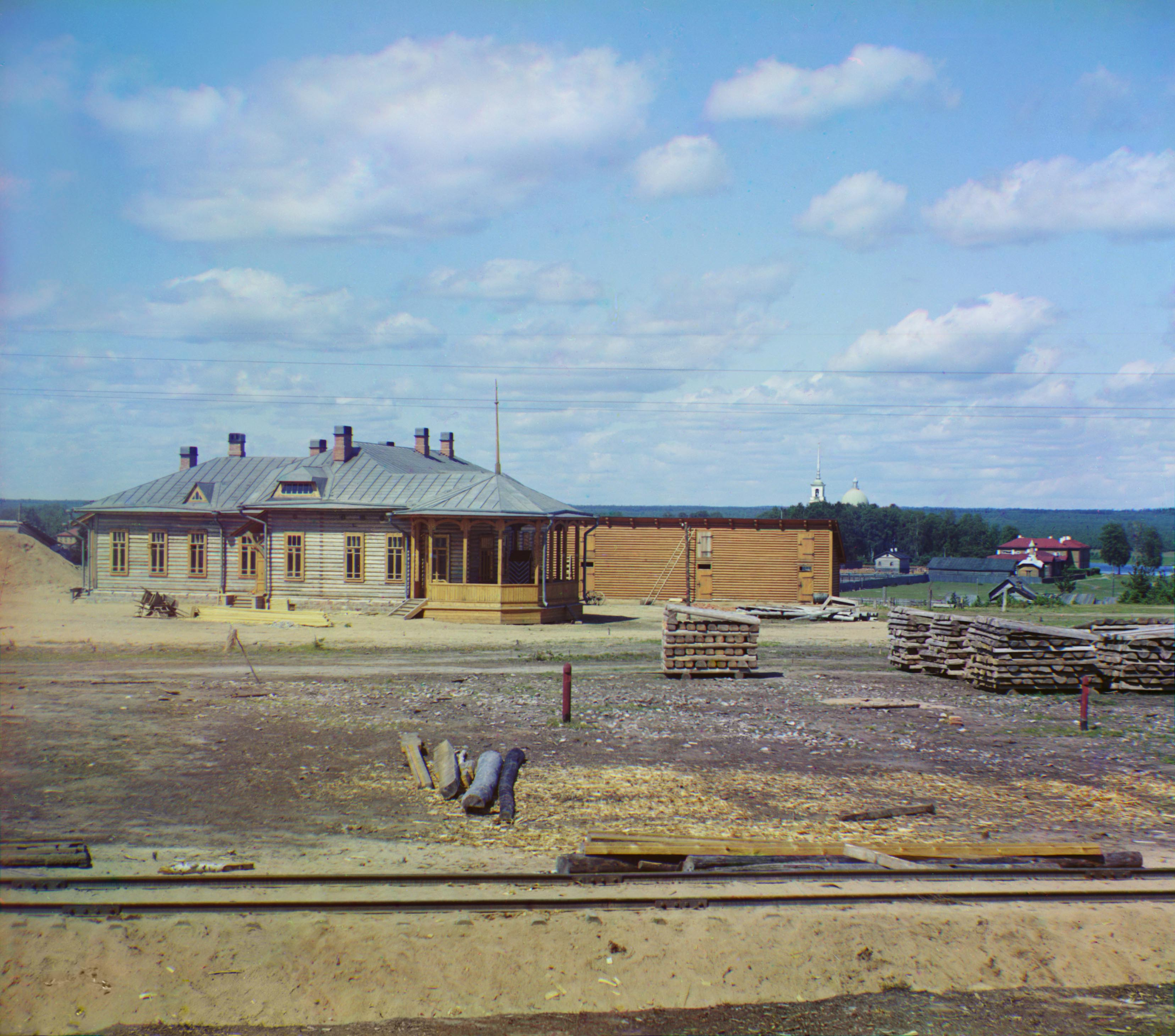 Petrozavodsk Station on the Olonetsk railroad